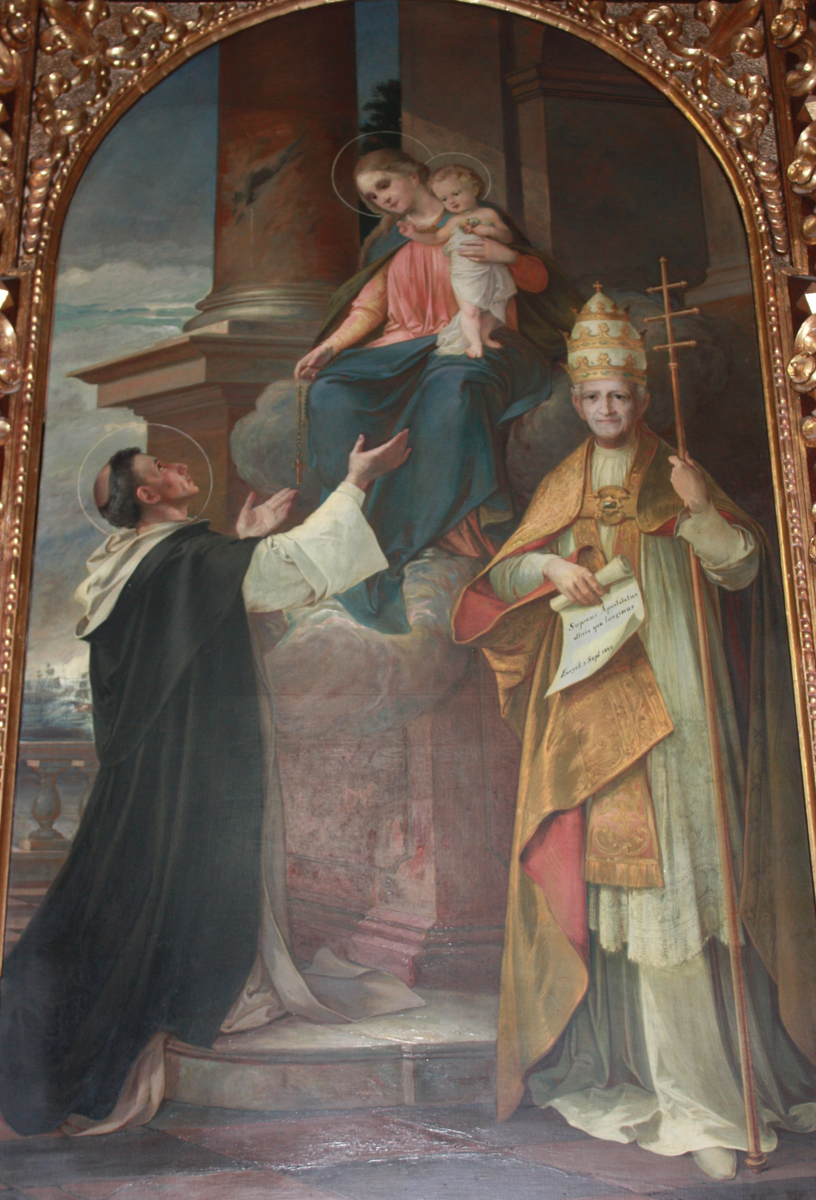 Cloister church : Altar-Painting: Blessed Mother presents the St. Dominic the Rosary; Pape Leo XIII Locality: Millstatt Community:Millstatt